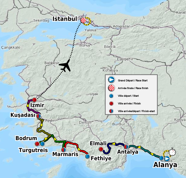 Route Tour of Turkey 2012